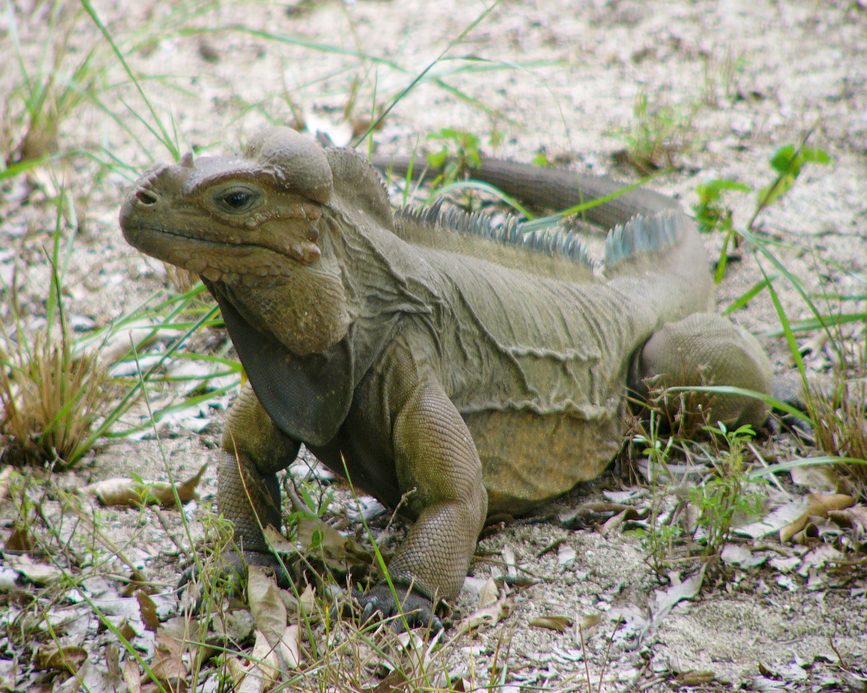 Cyclura cornuta stejnegeri